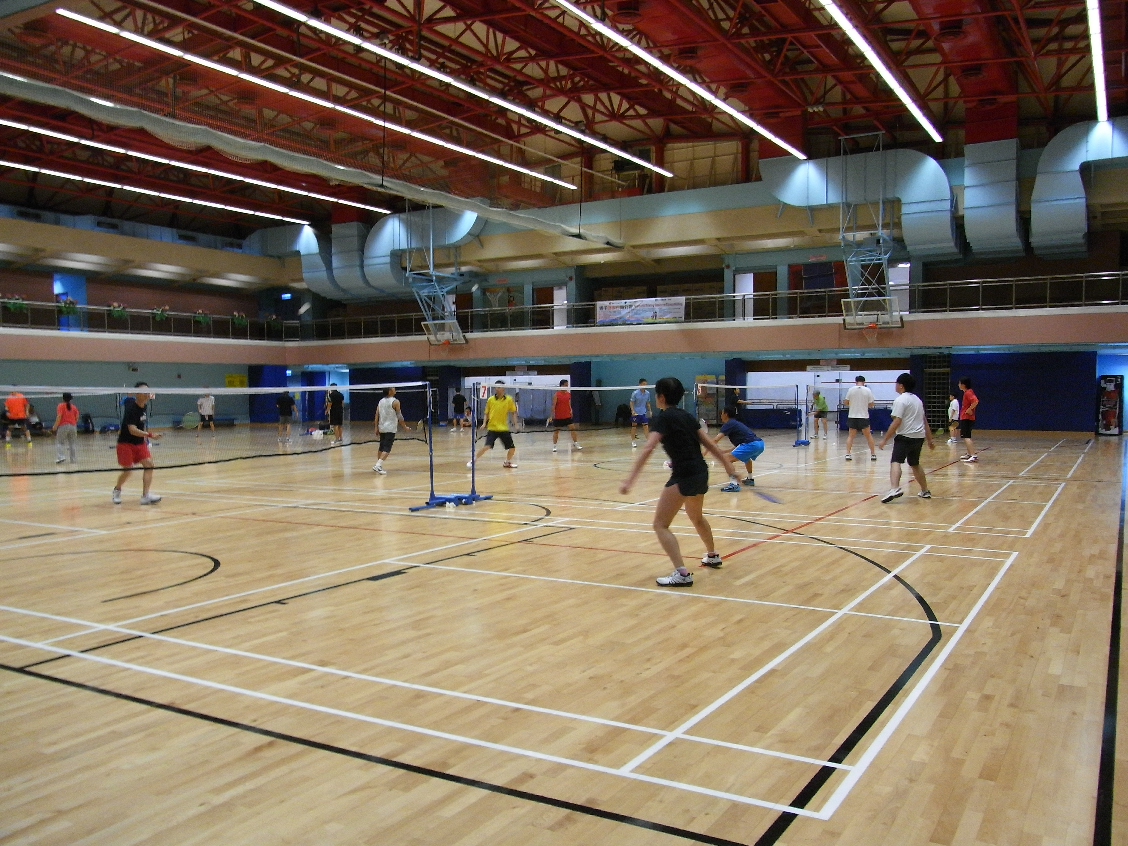 上環體育中心, Sheung Wan Sports Centre, Sheung Wan, Hong Kong